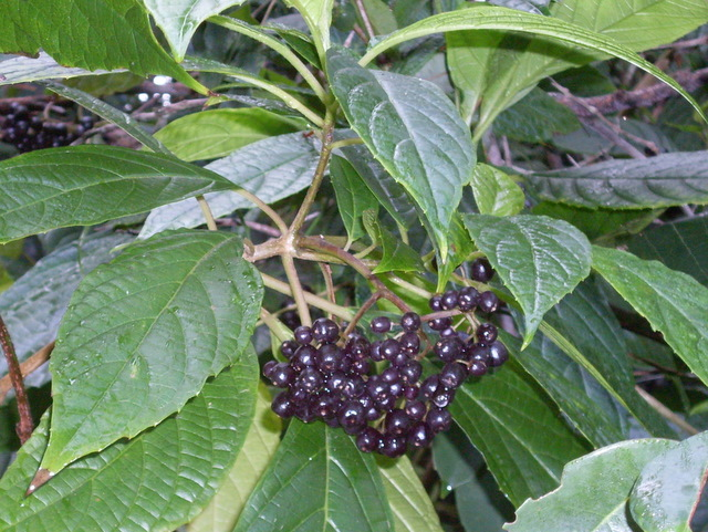 Abrophyllum ornans at Elvina_Bay